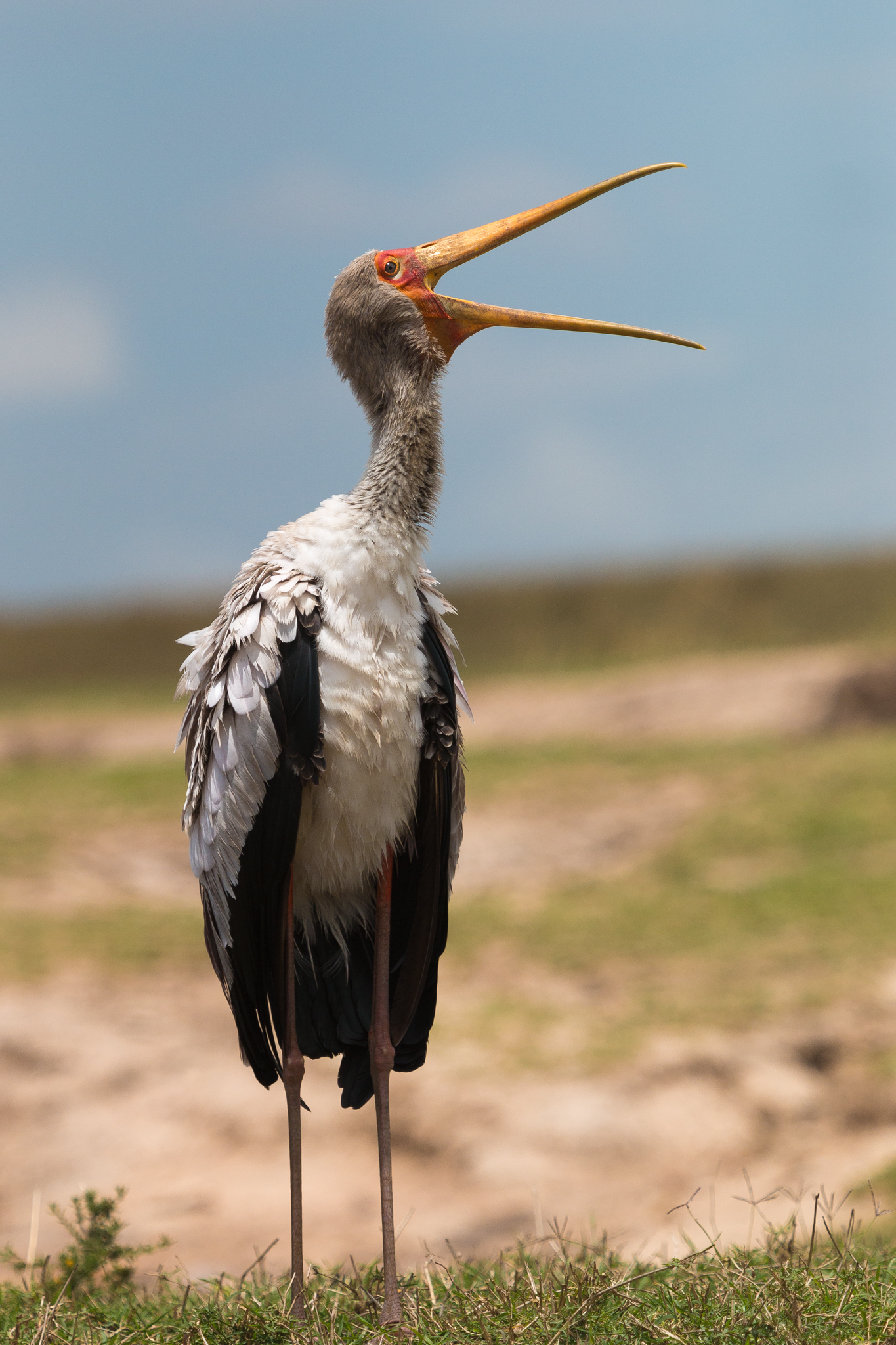 From Maasai Mara